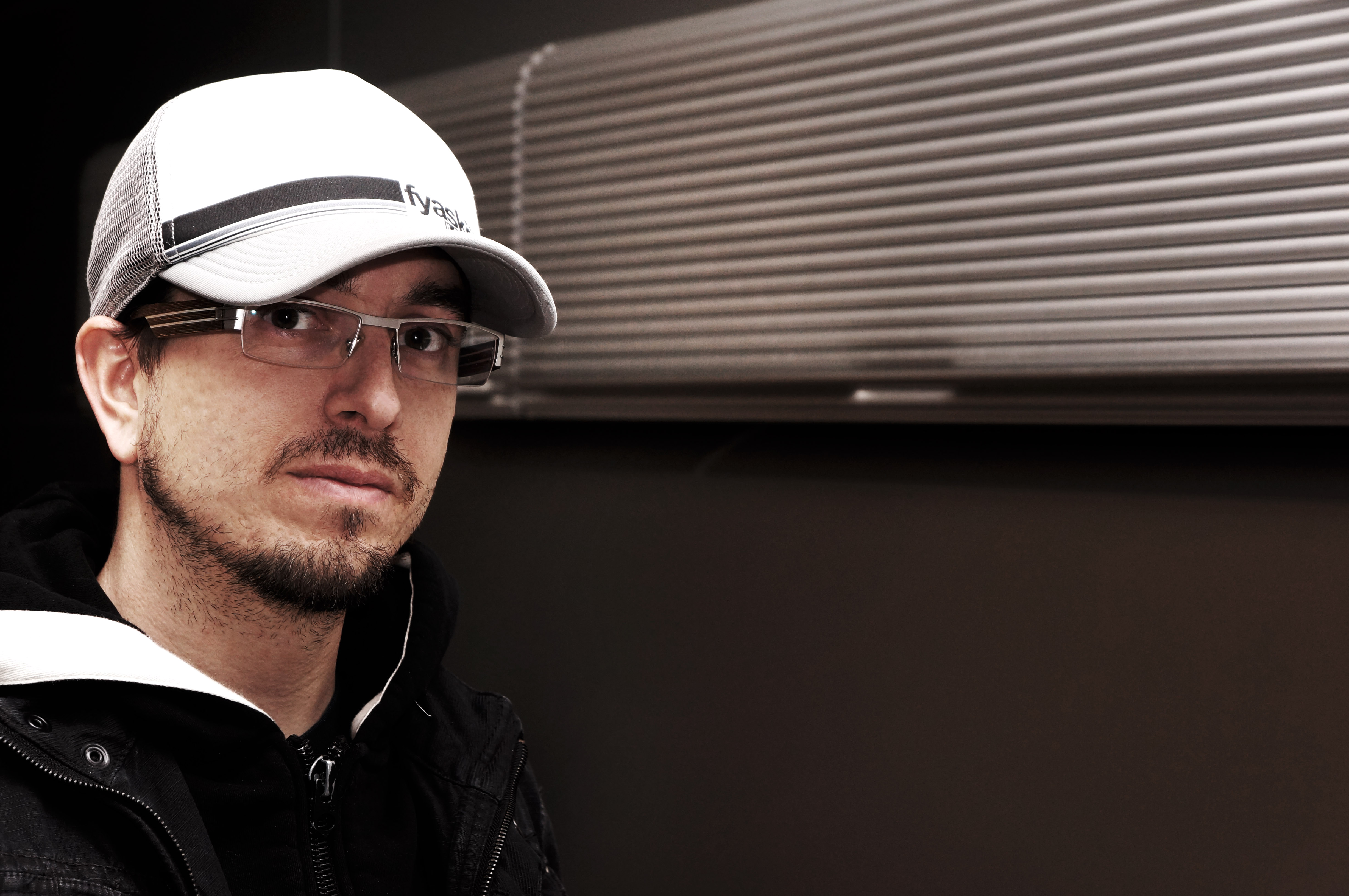 Fury_2012 Official Picture 2